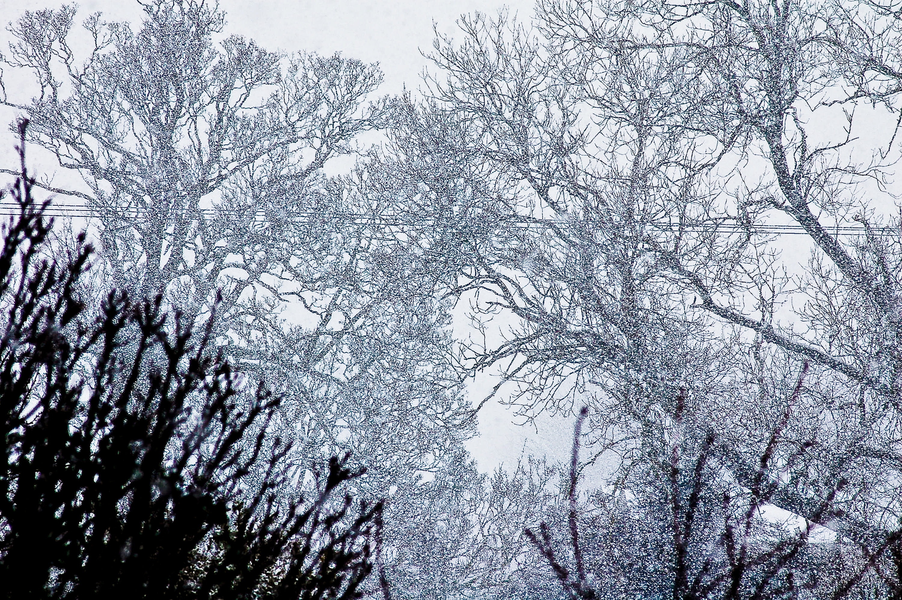 Blizzard in Rillington, North Yorkshire, England.